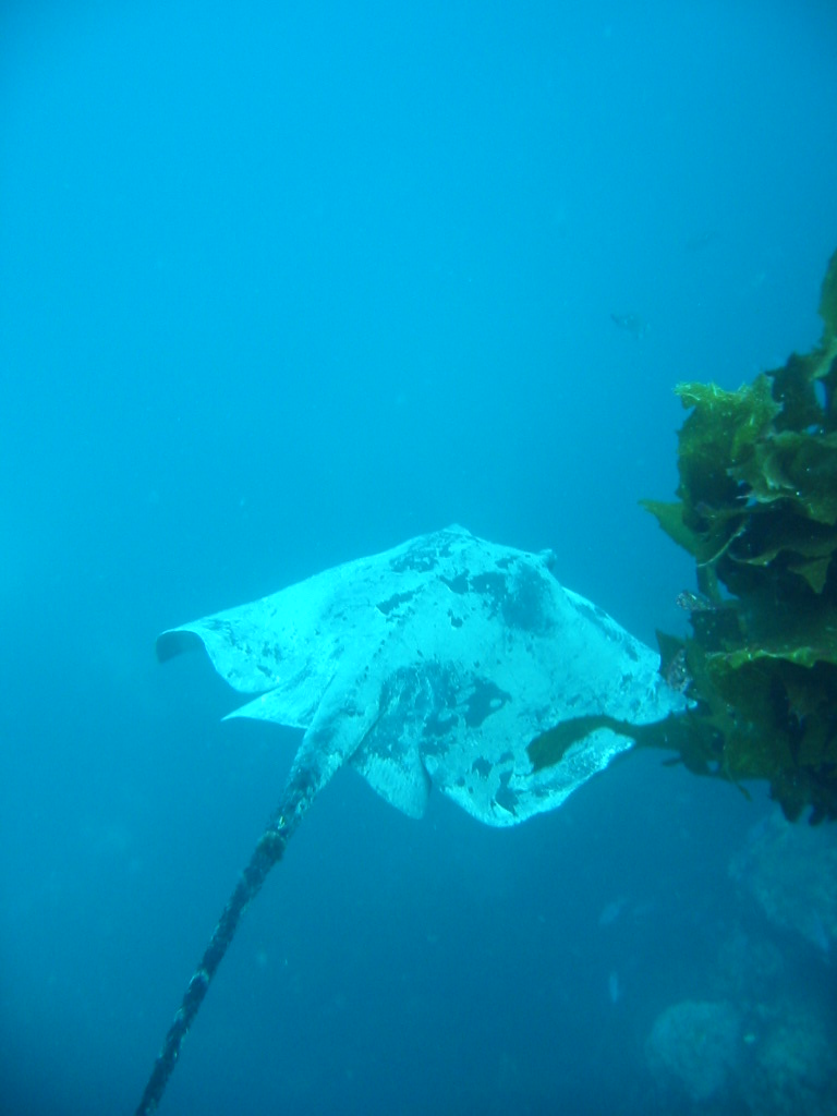 Thorntail stingray (Dasyatis thetidis) at the Poor Knights Islands, New Zealand around October hundreds of Singrays converge for mating. During this shot I had four other stingrays surrounding me - it was very intimidating